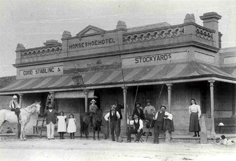 Taken from